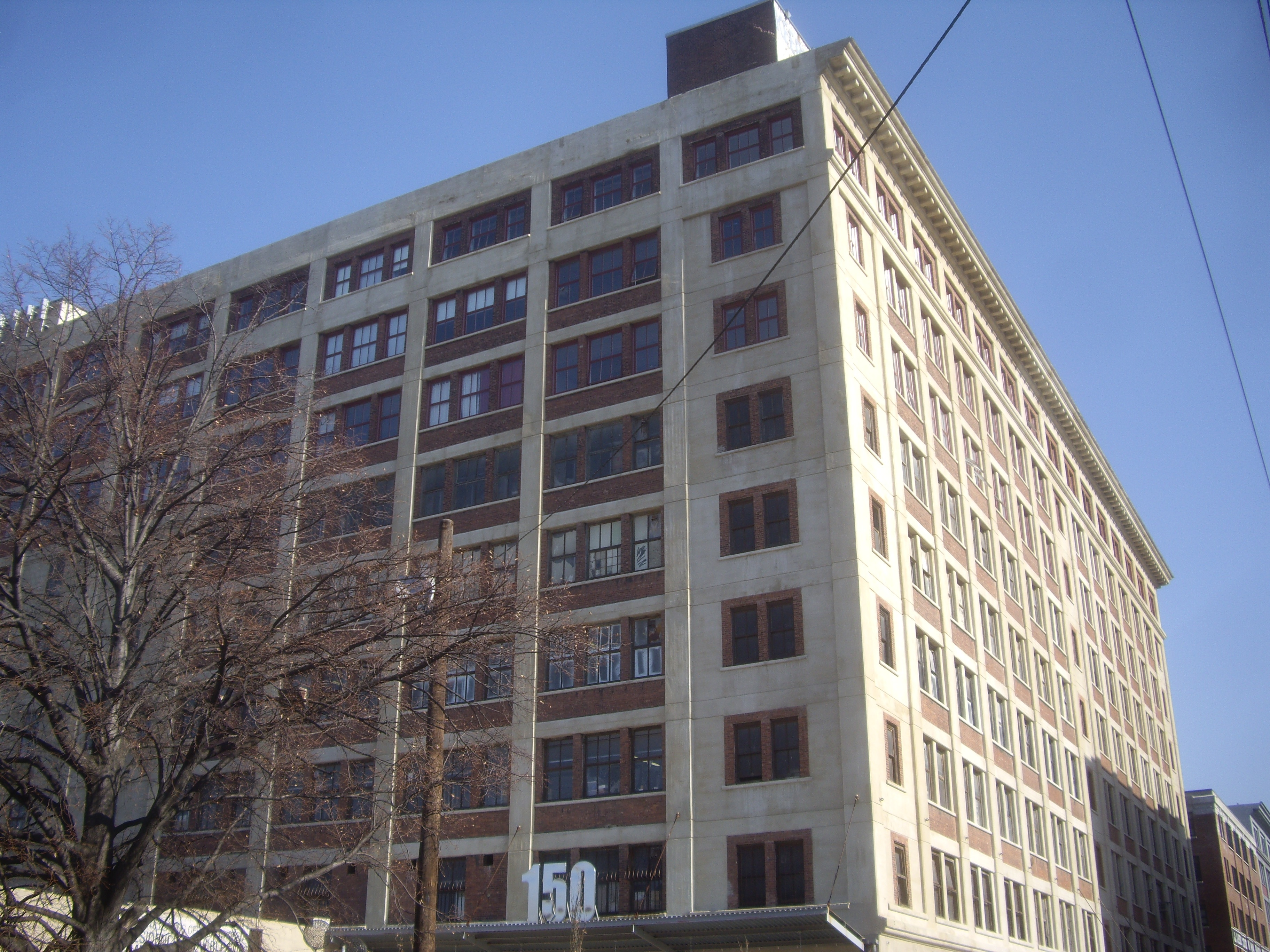 Great A&P Warehouse, 150 Bay Street, Jersey City, NJ